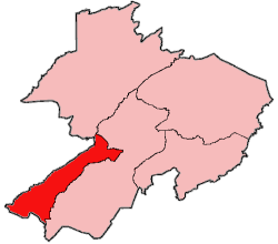 Map of Gbarpolu County, Liberia showing Gbarma District; created with the GIMP. Made by User:Acntx.